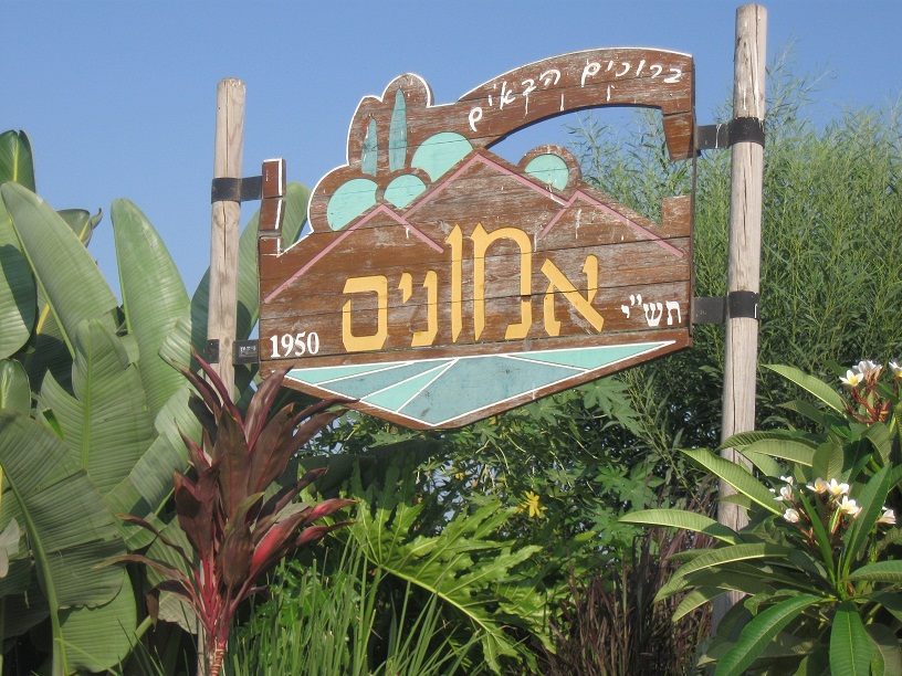 שלט הכניסה במושב אמונים